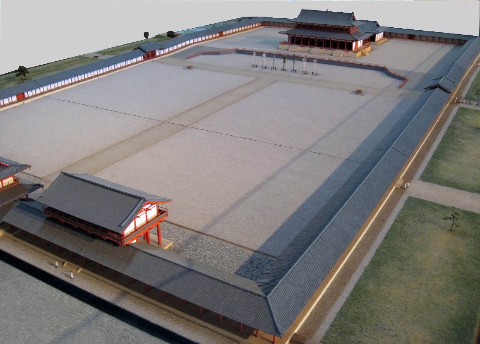 Miniature Model of Heijo Palace Daigokuden , 平城宮大極殿復元模型（平城宮跡資料館）